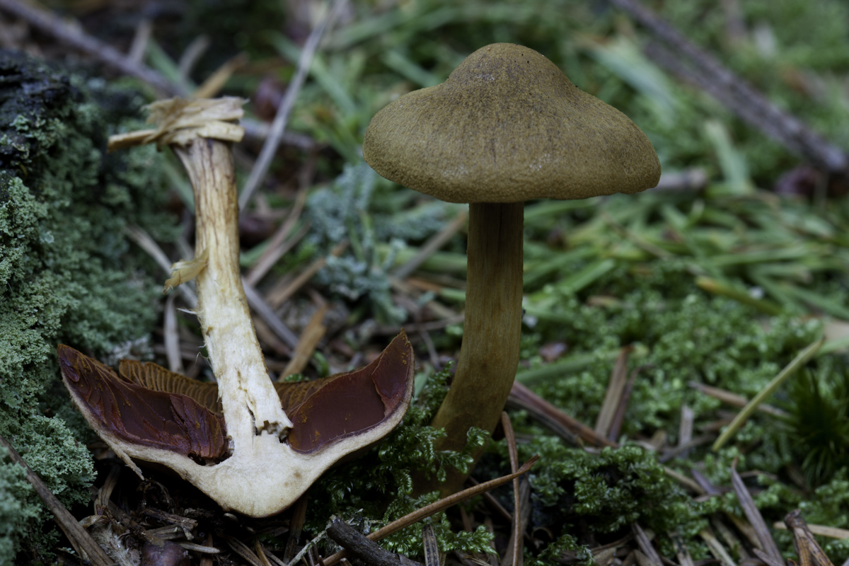 Cortinarius semisanguineus